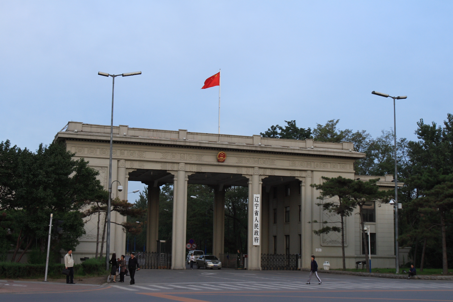 Liaoning Govement, China